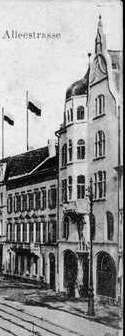 t